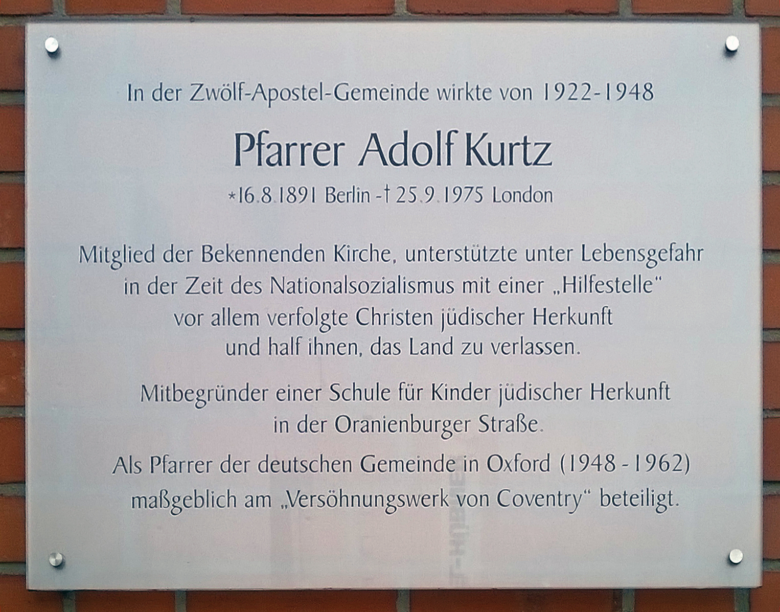 Memorial plaque, Adolf Kurtz, An der Apostelkirche 1, Berlin-Schöneberg, Germany